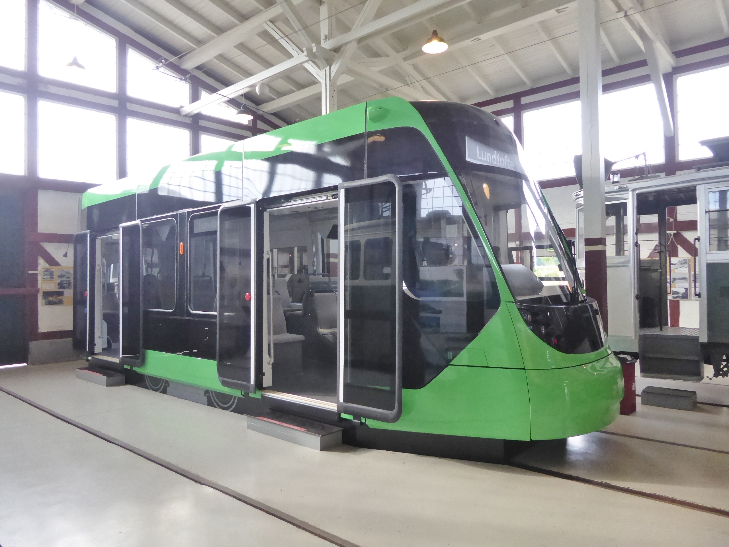 Mock-up of a quarter of a Siemens Avenio tram for Hovedstadens Letbane at Sporvejsmuseet Skjoldenæsholm in Denmark. It was used to test the design and interior for the trams for Hovedstadens Letbane which will open between Ishøj and Lundtofte in 2025.